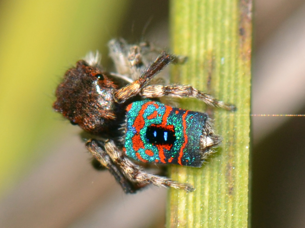 Maratus mungaich jumping spider photographed at the Talbot Road Reserve in Western Australia